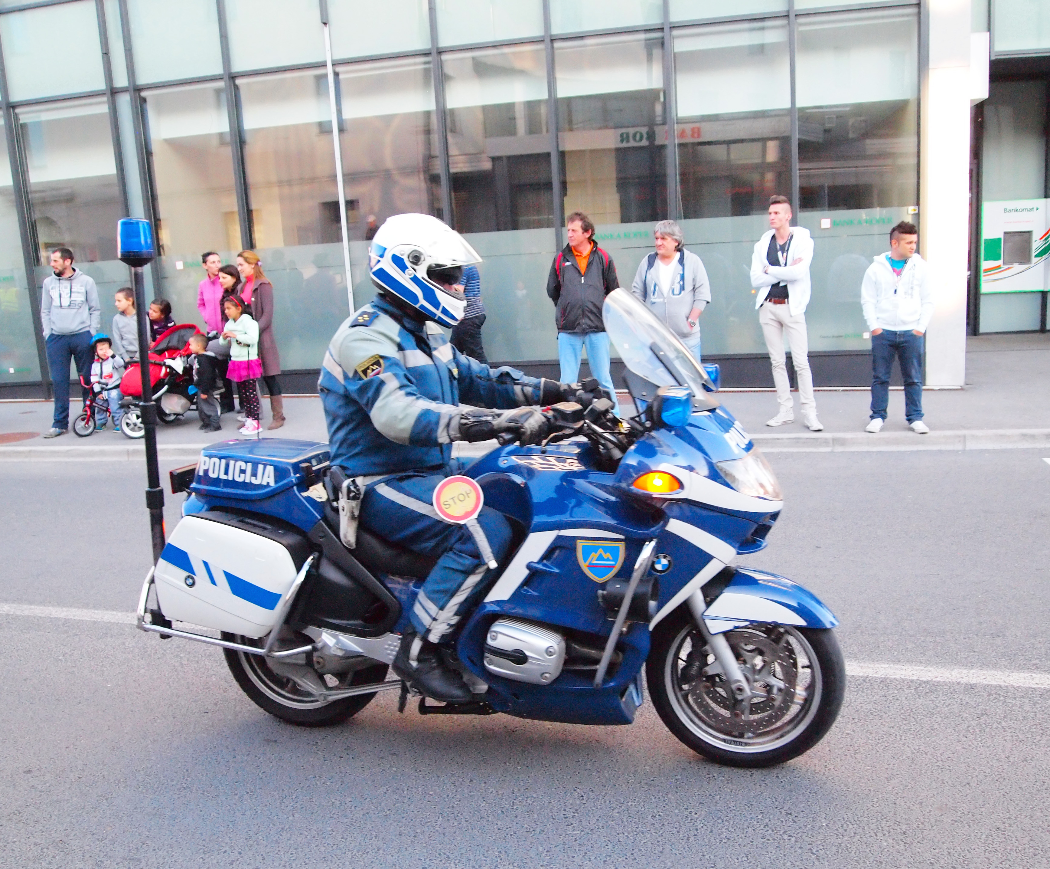 Police motorcycle on the street Jamska cesta at the cycling event Dos-Ras Extreme in Postojna 2014.